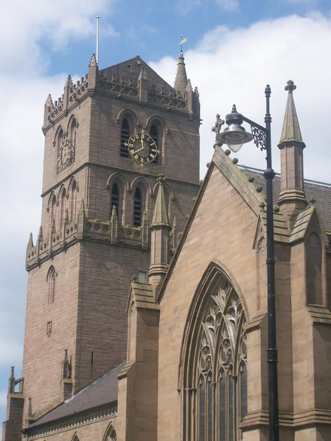 St. Mary's Tower, Dundee St. Mary's Tower is one of Dundee's few surviving medieval buildings